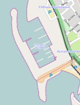 Open street map view Olympic harbor for the 2004 Summer Olympics in Athens. This map may be incomplete, and may contain errors. Don't rely solely on it for navigation.